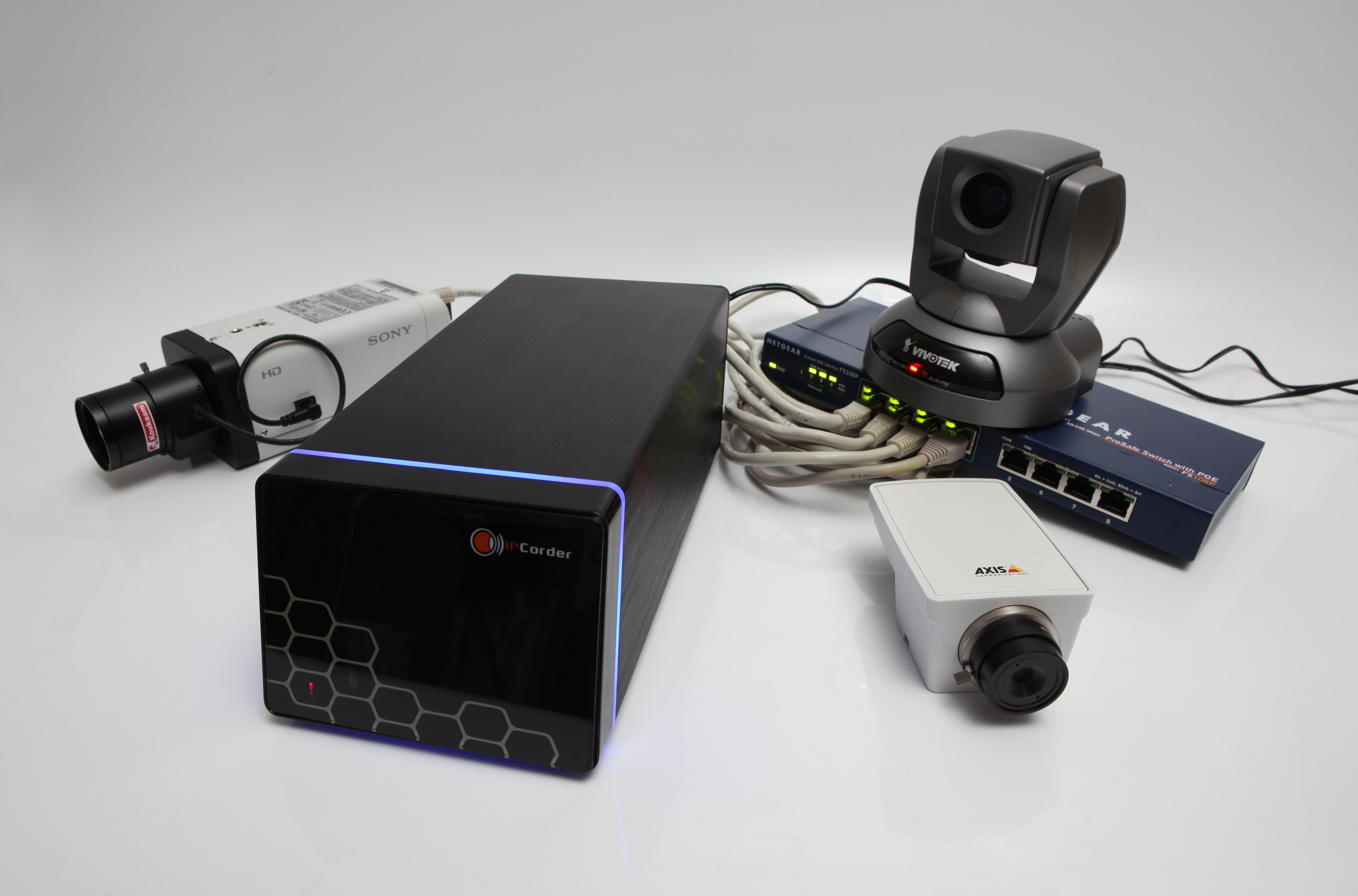 Simple NVR-based IP camera system. Includes: IPCorder KNR-200 NVR Netgear PoE switch IP cameras: Axis M1104 Sony SNC-CH140 Vivotek PZ8121